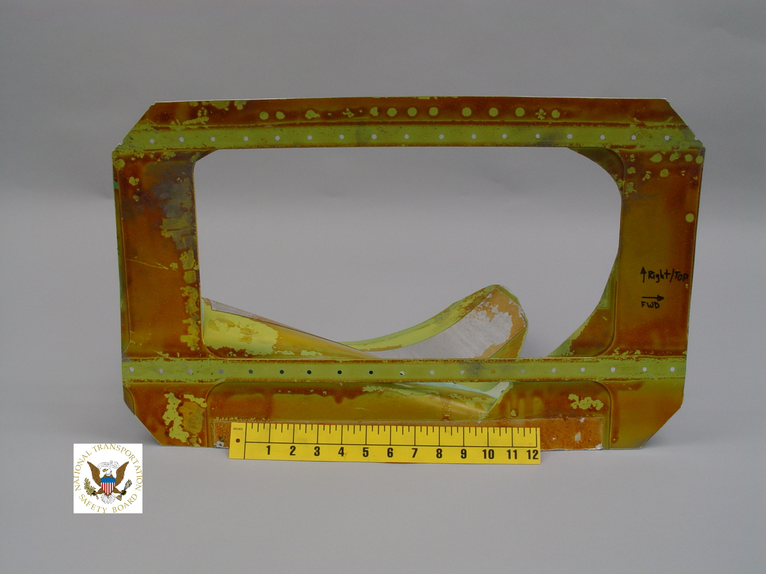 Interior view of the damaged section from Southwest Airlines Flight 2294, which suffered structural damage followed by rapid decompression on July 13, 2009.